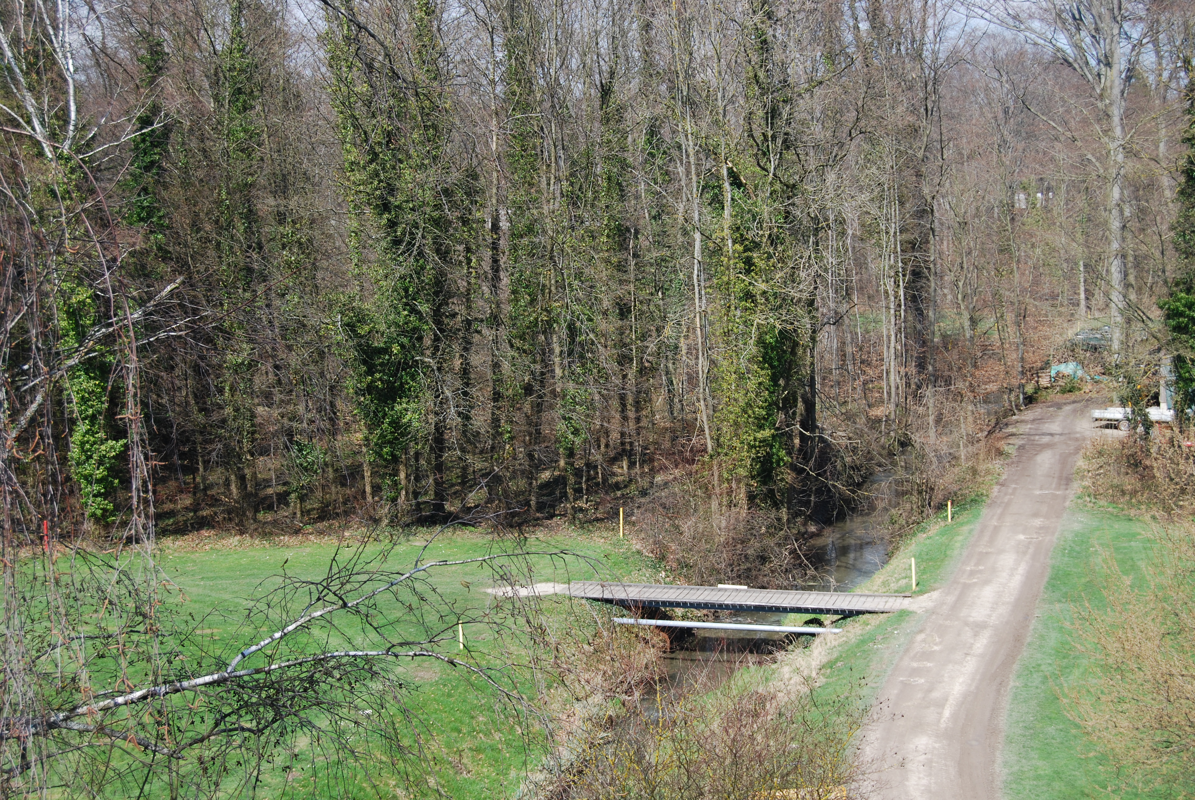 Riparian Forest in the north of Schinznach-Bad, canton of Aargau, SwitzerlandEsperanto: Marĉarbaro norde de Schinznach-Bad, Kantono Argovio, Svislando